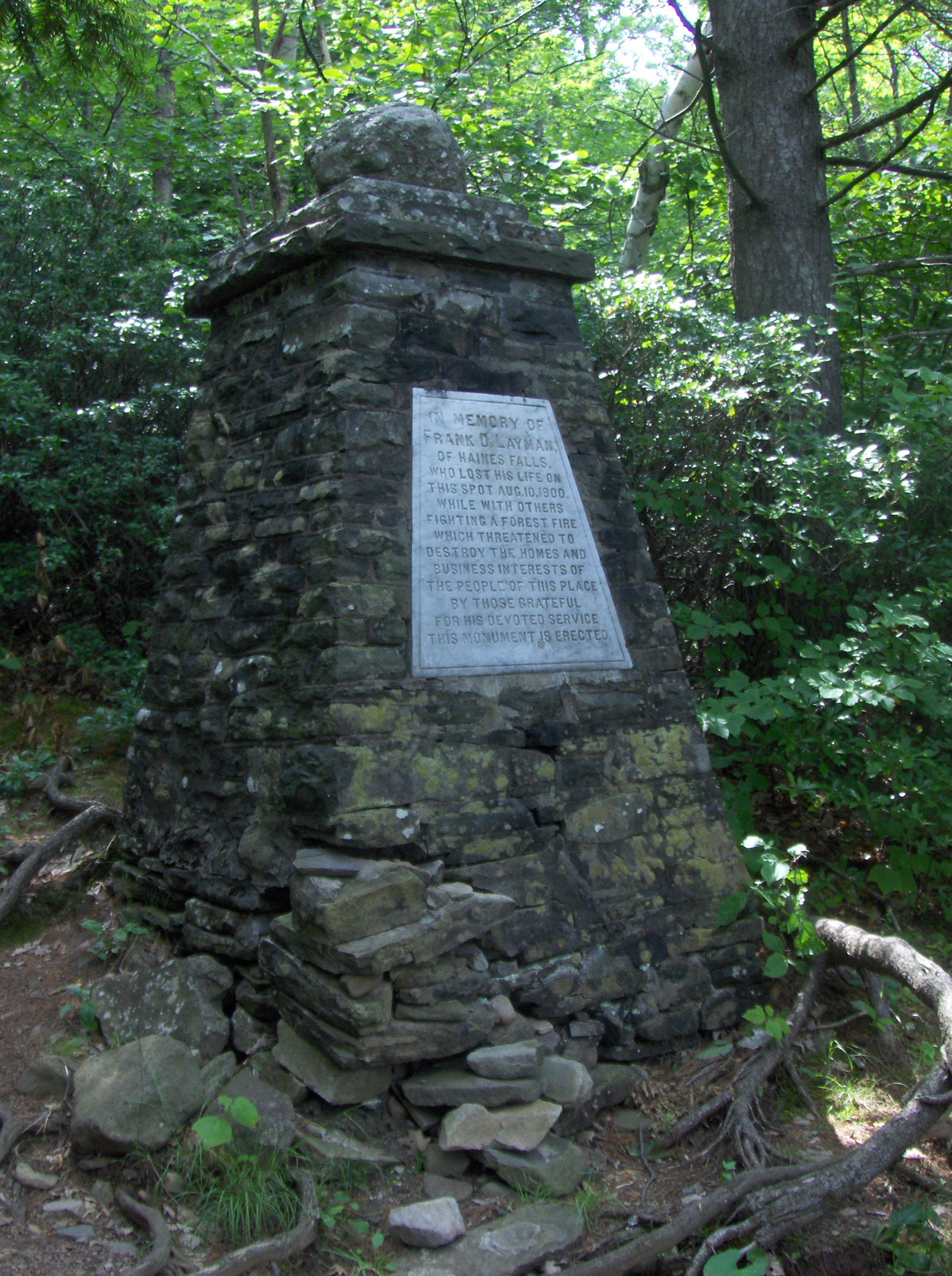 Sitting high up on South Mountain, across Kaaterskill Clove from Twilight Part, sits Layman's Monument. A monument erected for Frank D. Layman, a firefighter who lost his life while trying to save lives and property in the year 1900.